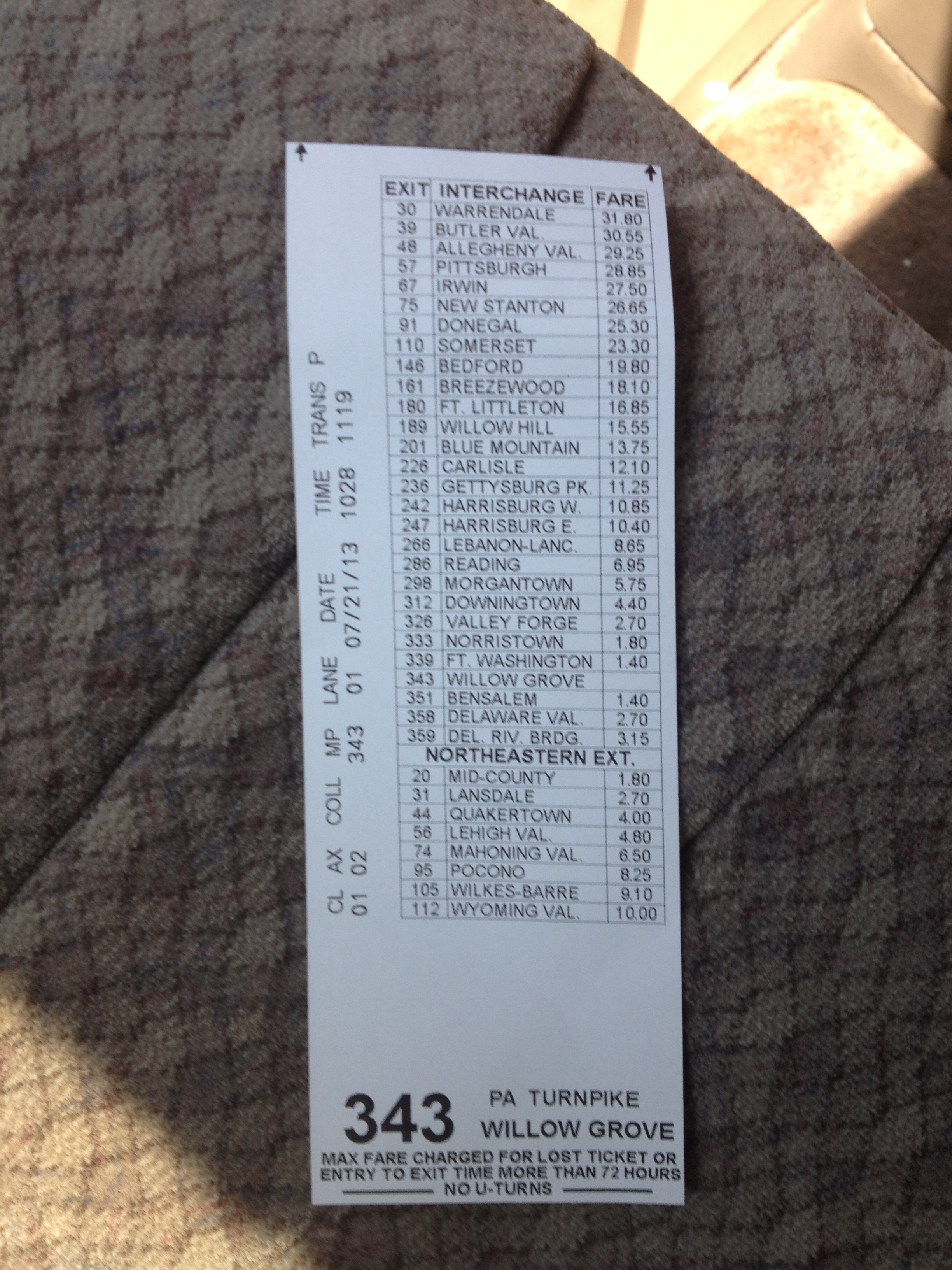 A Pennsylvania Turnpike toll ticket from the Willow Grove interchange (exit 343)